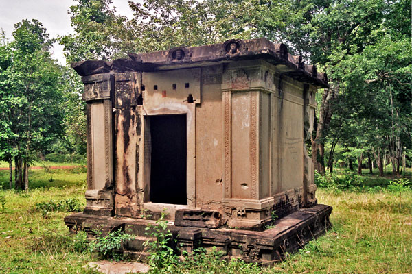 N17 Sanctuary. Sambor Prei Kuk. Cambodia